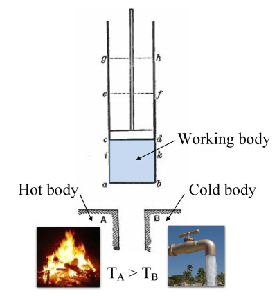 It is a color-annotated version of the 1824 Carnot engine diagram